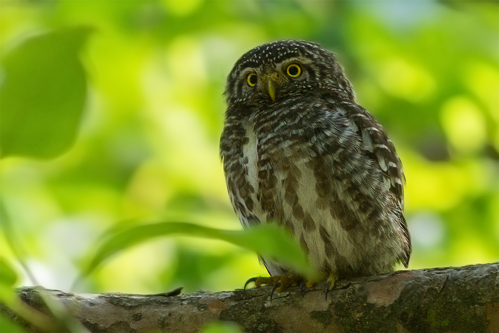 Collared Owlet | Bajoon, Uttarakhand, India